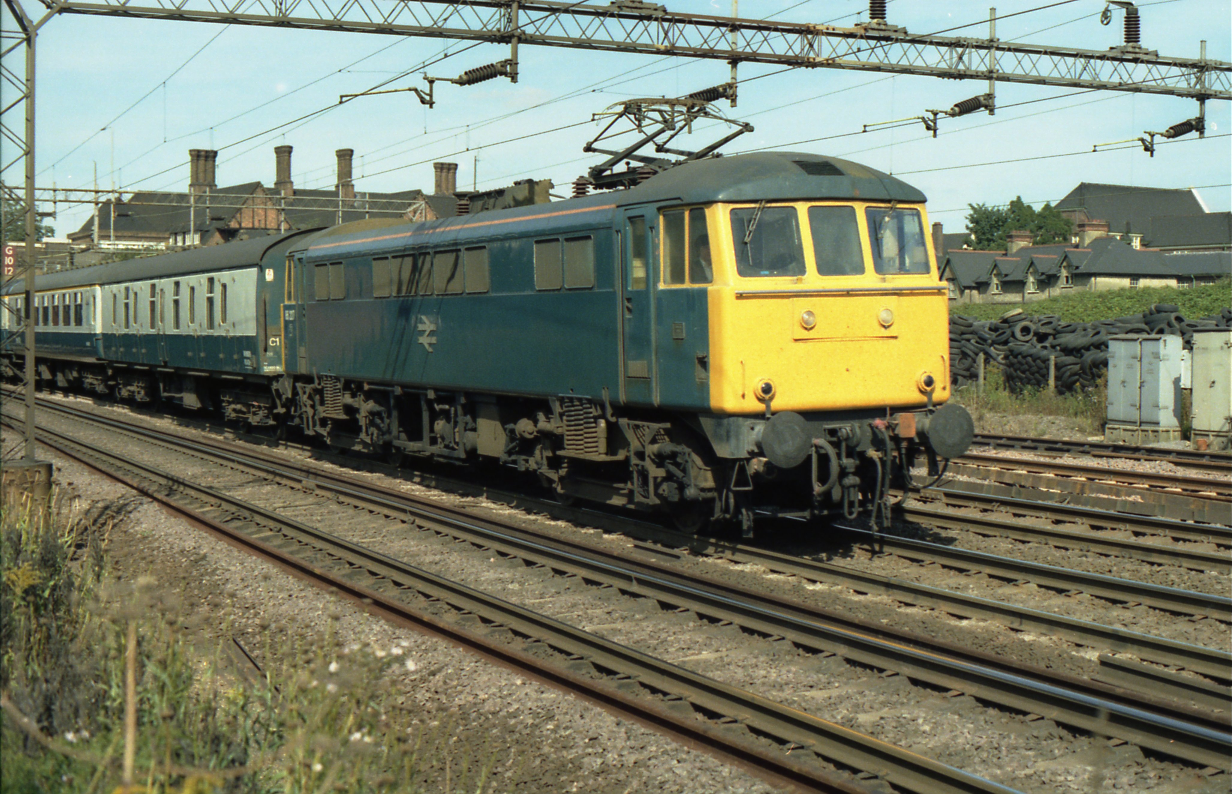 Class 86 Electric locomotive No. 86 227 (formally E3117, later allocated the name 'Lady of the Lake' but never carried) on the up LNWR main line to Euston with an inter city express. 15/09/1979 86 227 was withdrawn from service in October 2004. Camera: Olympus OM1 35mm SLR. Film: Fuji.